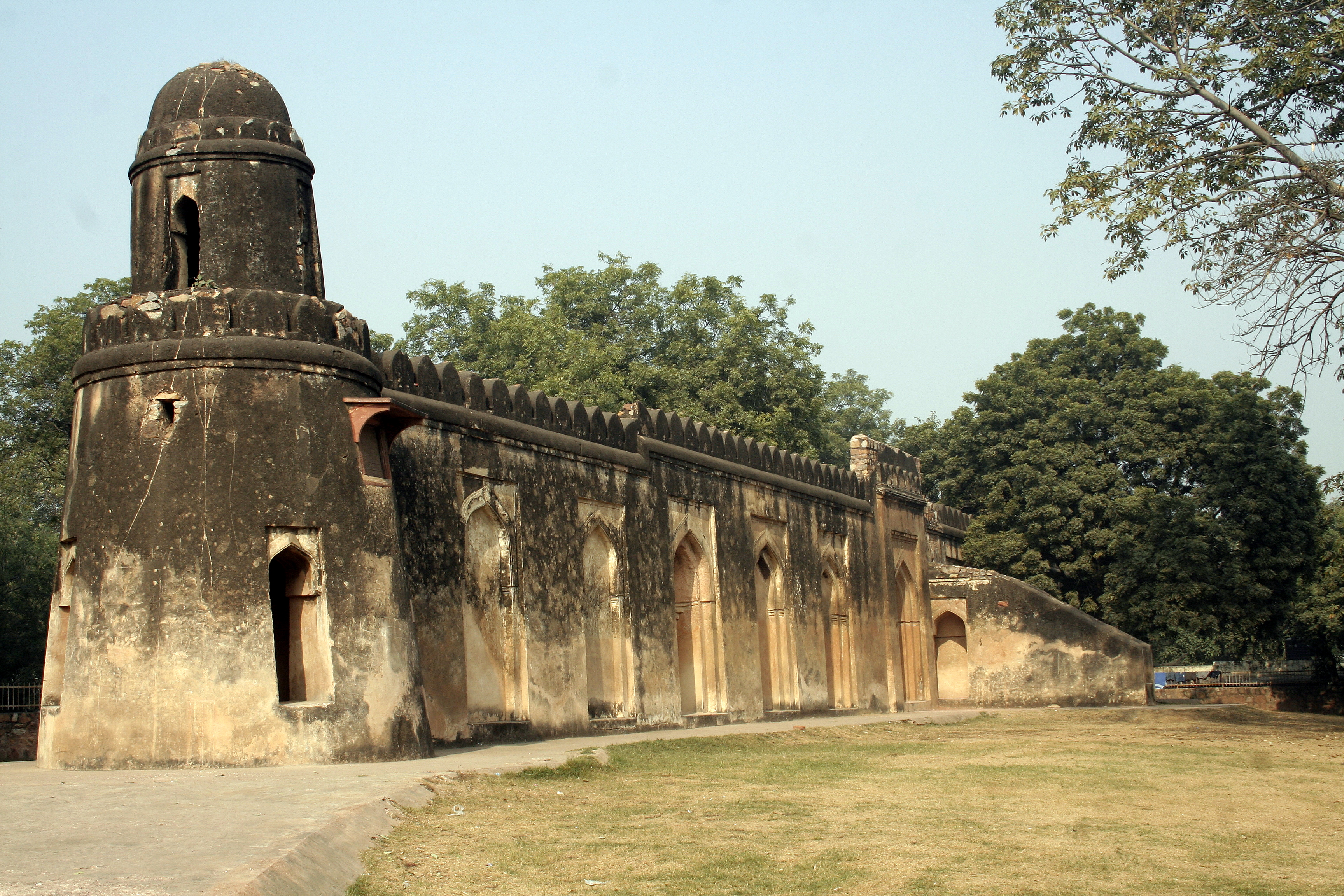 Idgah of Kharehra No. 287, Vol III Idgah is located north west of Chor Minar in Padmani Enclave .It was built by Mallu Khan who was virtual ruler during reign of Nashuddin Mahmud Tughlaq.The mosque consists of 11 mirabs recesses.An inscription on the south bastion mentions desolate condition of Delhi after Timur's invasion in 1398.